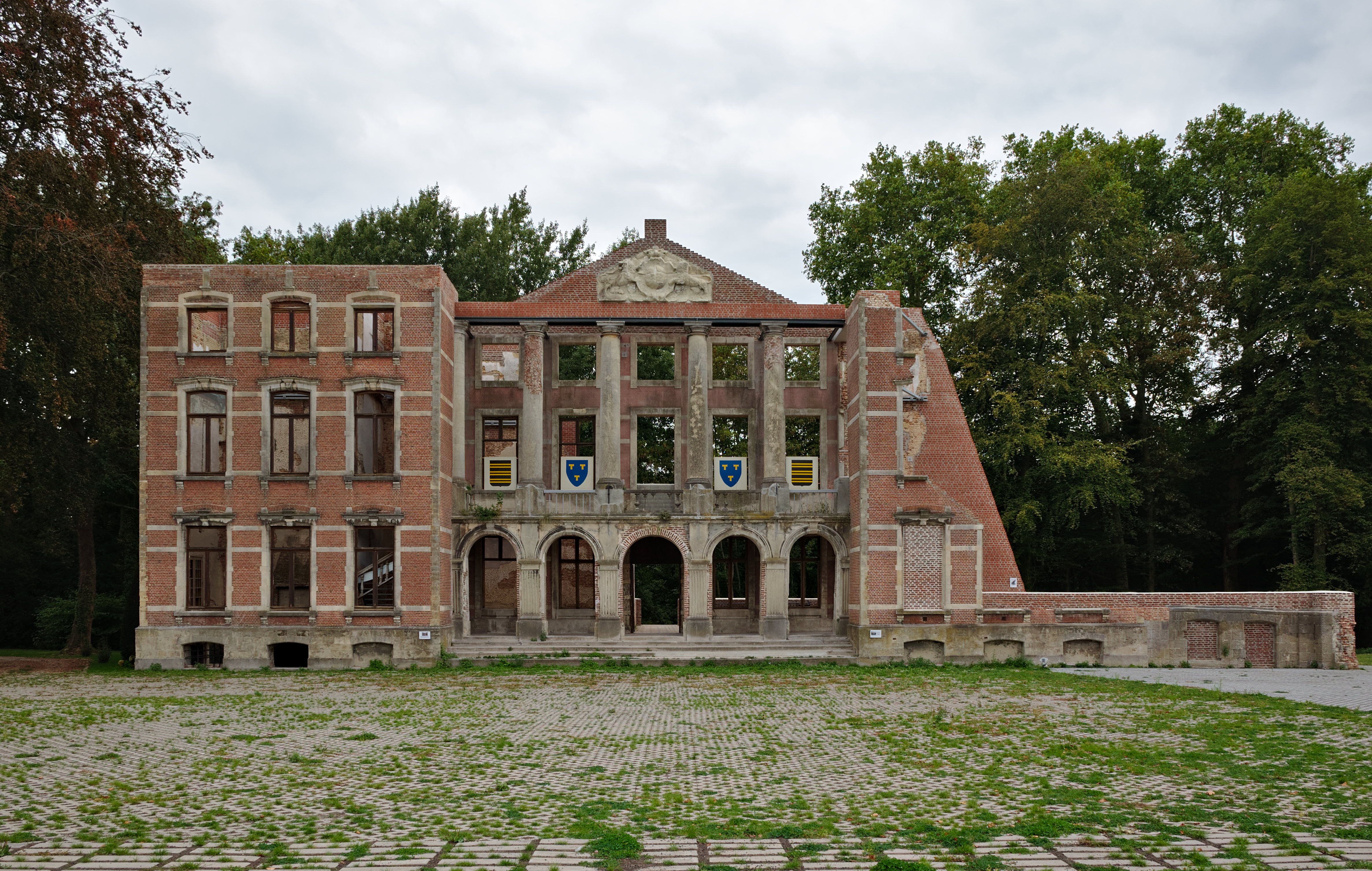 Mesen Castle in Lede, Belgium This photo of immovable heritage has been taken in the Flemish Region